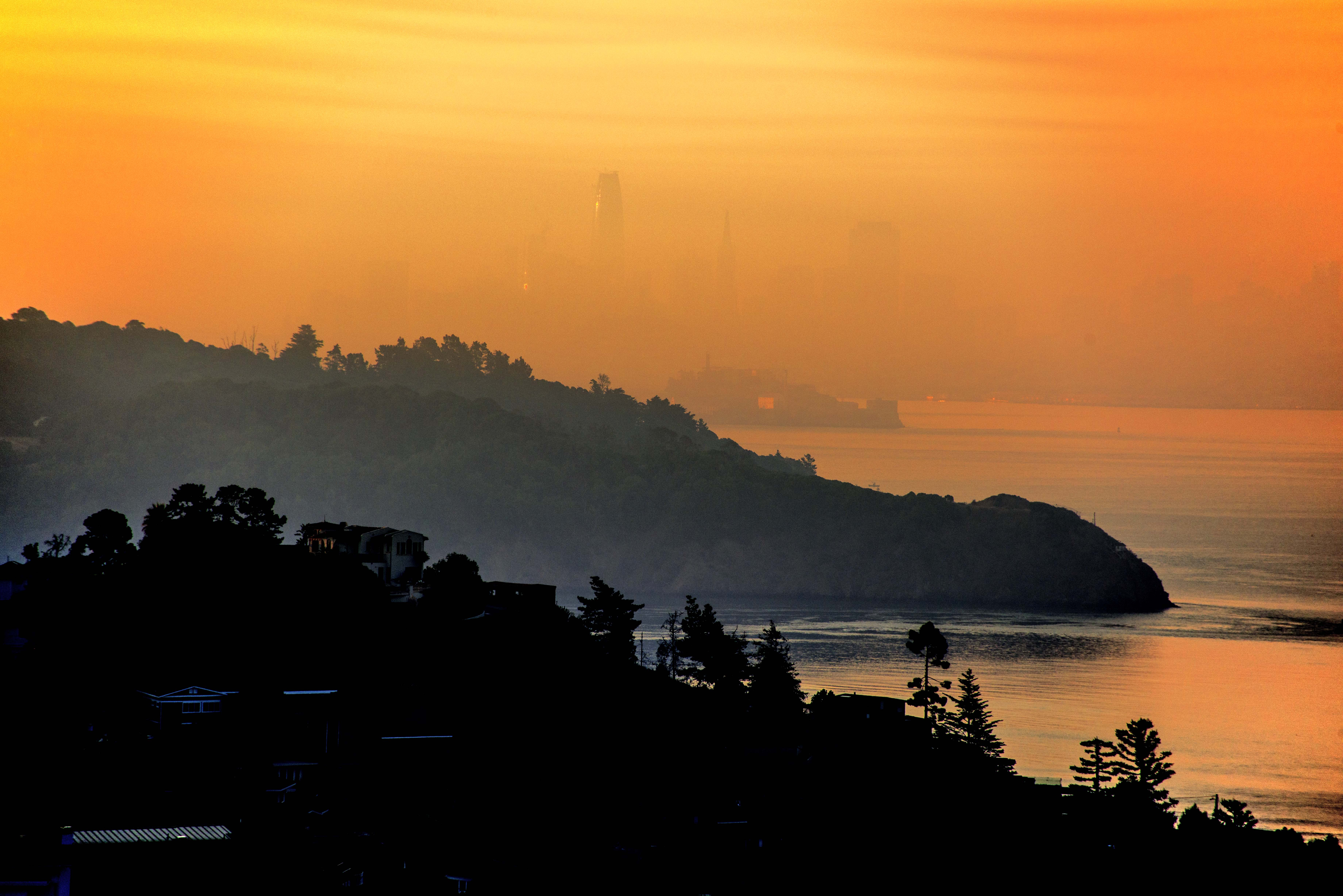 A smoky sunrise over the San Francisco Bay during wildfires in October 2017. Taken from Tiburon, North San Francisco Bay. The green swath is Angel Island and the small island is Alcatraz. Somewhere in the orange haze is San Francisco.